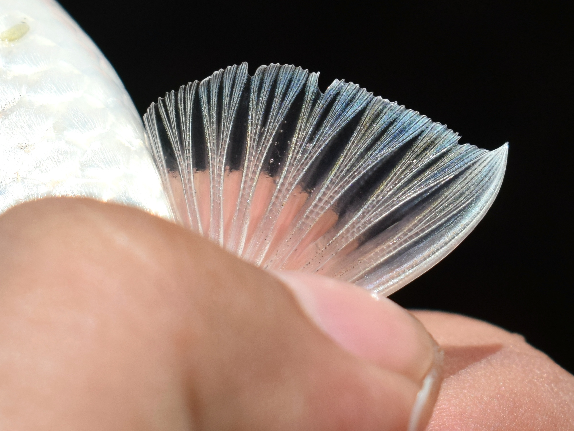 Sucker barb Barbichthys laevis; left pelvic fin. From North Musi Rawas (Muratara), South Sumatra, Indonesia.